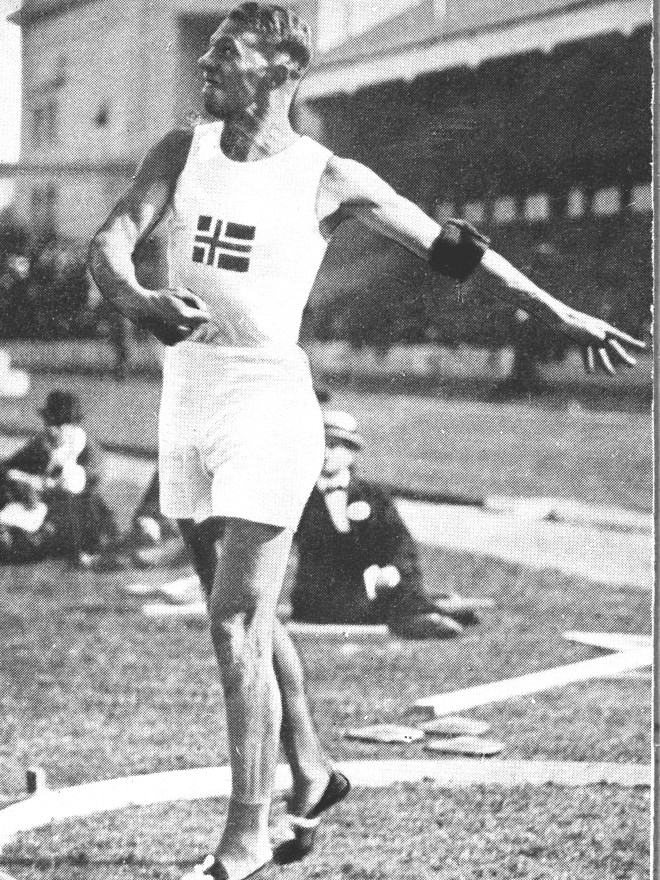 Helge Løvland at the 1920 Olymkpic Games (Discus throw).